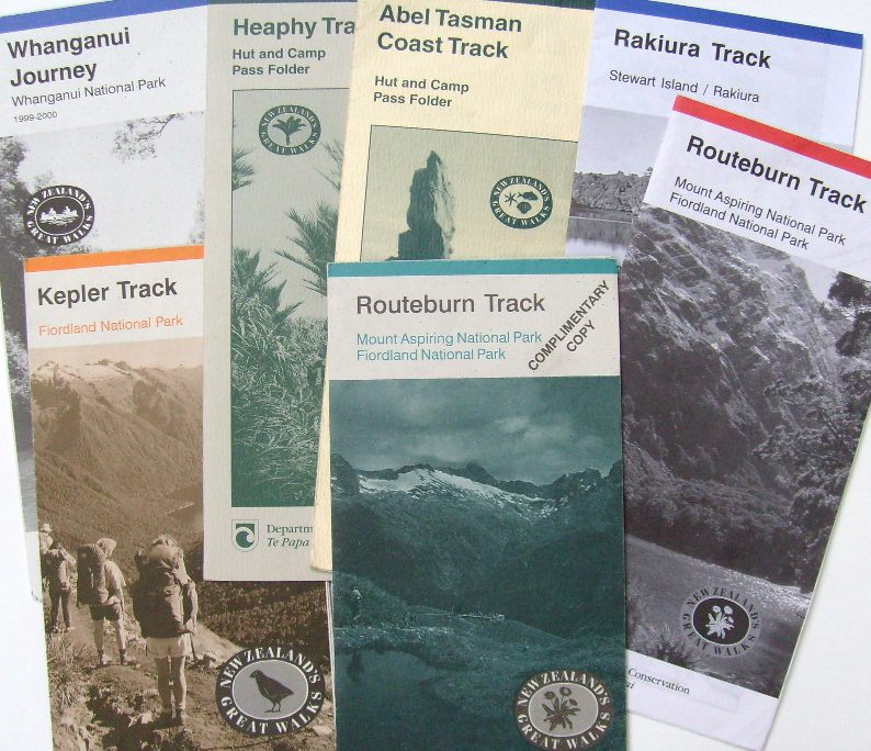 some of the Great Walk description sheets (pamphlets) as from the DoC (New Zealand Department of Conservation)